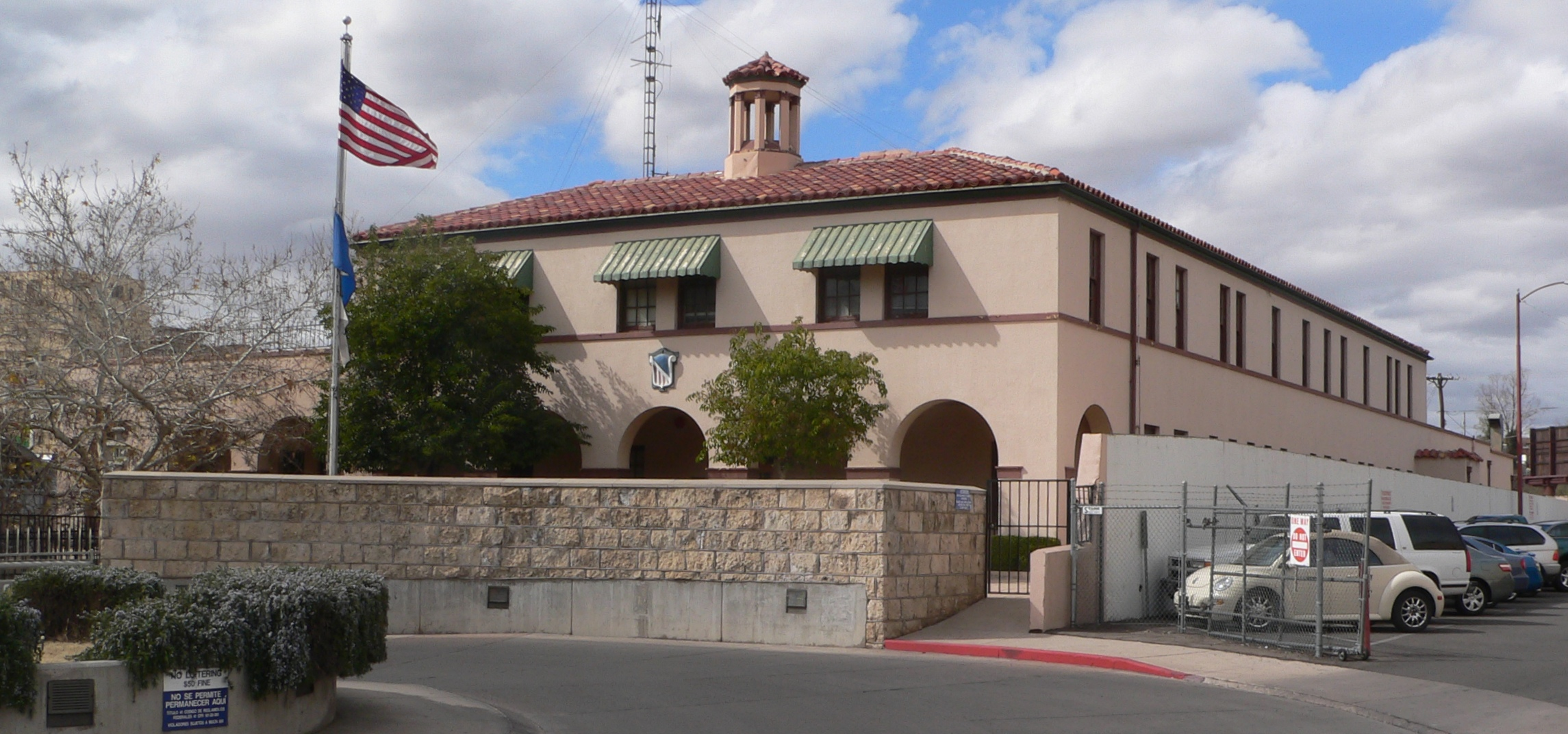 U.S. Custom House, located on Grand Avenue just north of the U.S.-Mexico border in Nogales, Arizona.